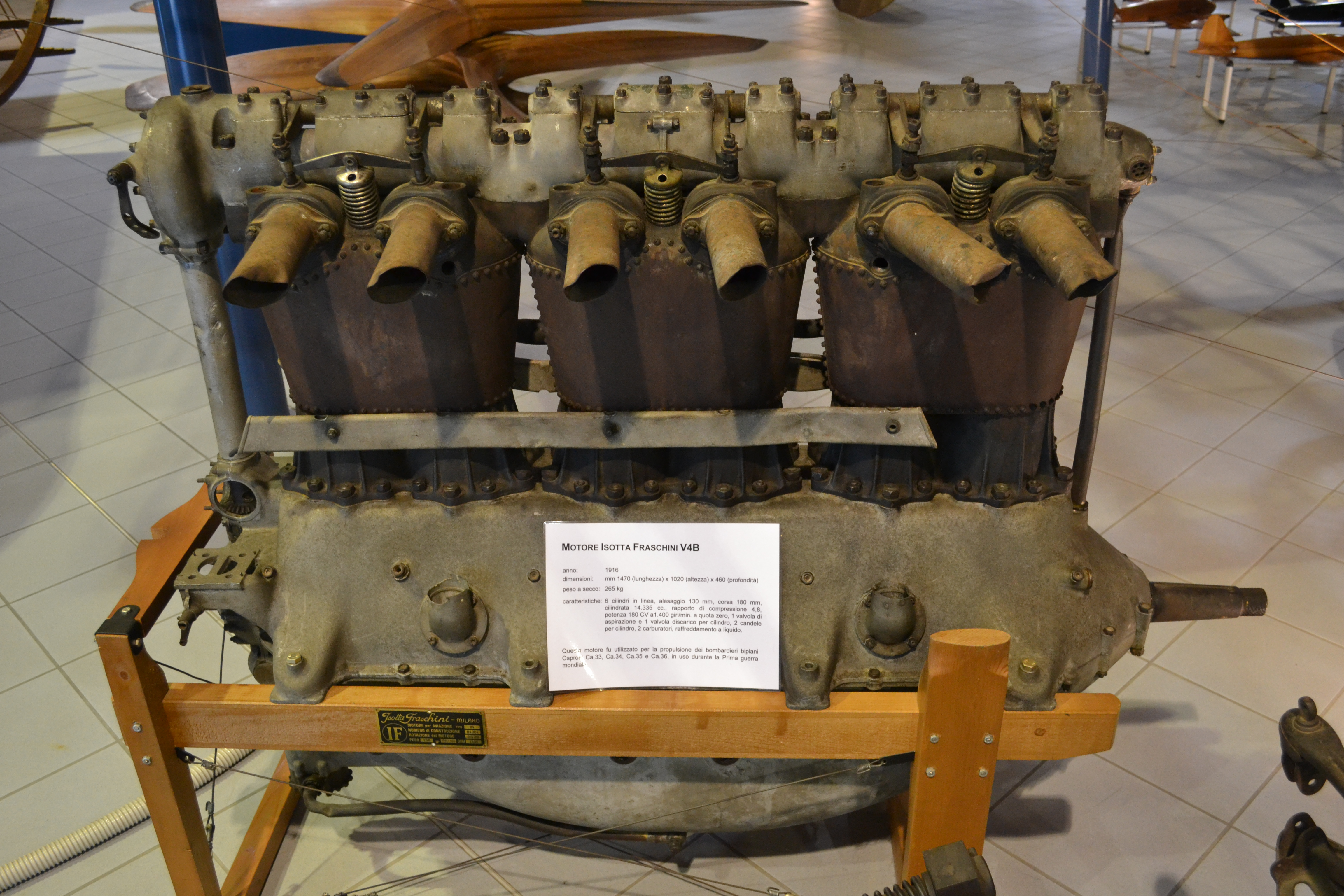 An Isotta Fraschini V.4B 6-cylinder inline engine from WWI on display at the Gianni Caproni Museum of Aeronautics.